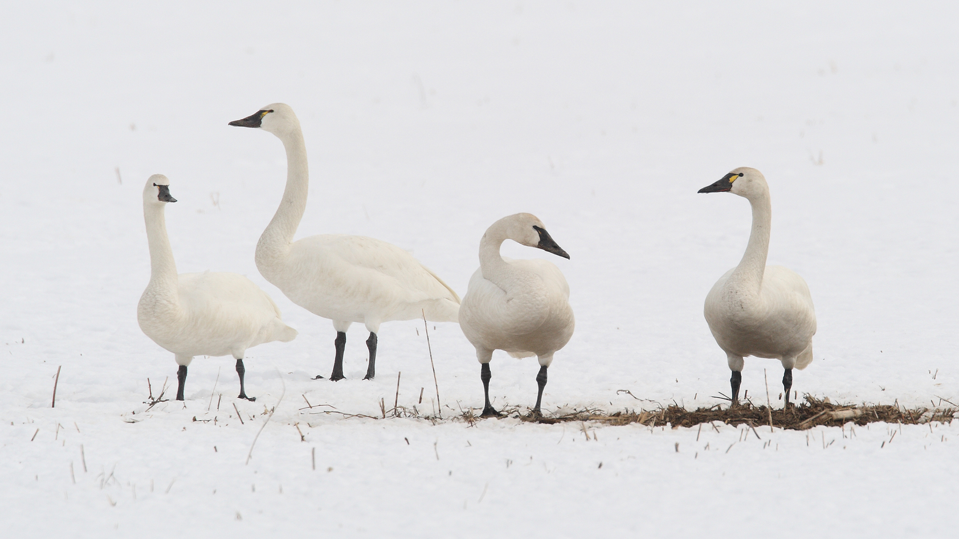 Tundra Swan -- near Long Point Provincial Park, Ontario, Canada -- 2008 March